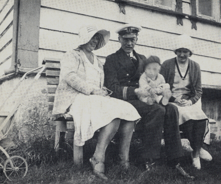 Hilmar Reksten and his small family in 1931